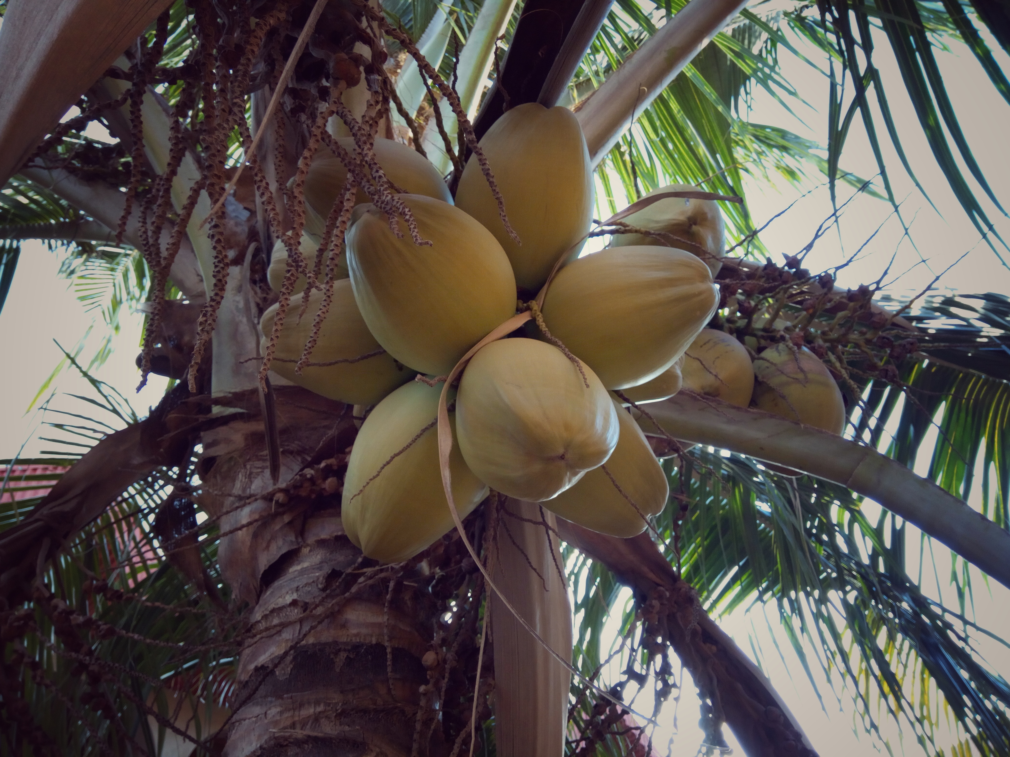 A coconut tree in ilorin